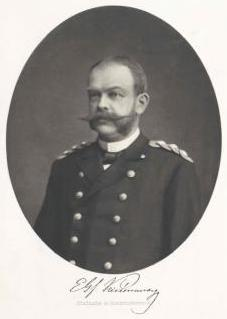 Erich Graf von Kielmansegg (1847-1923), Austrian statesman